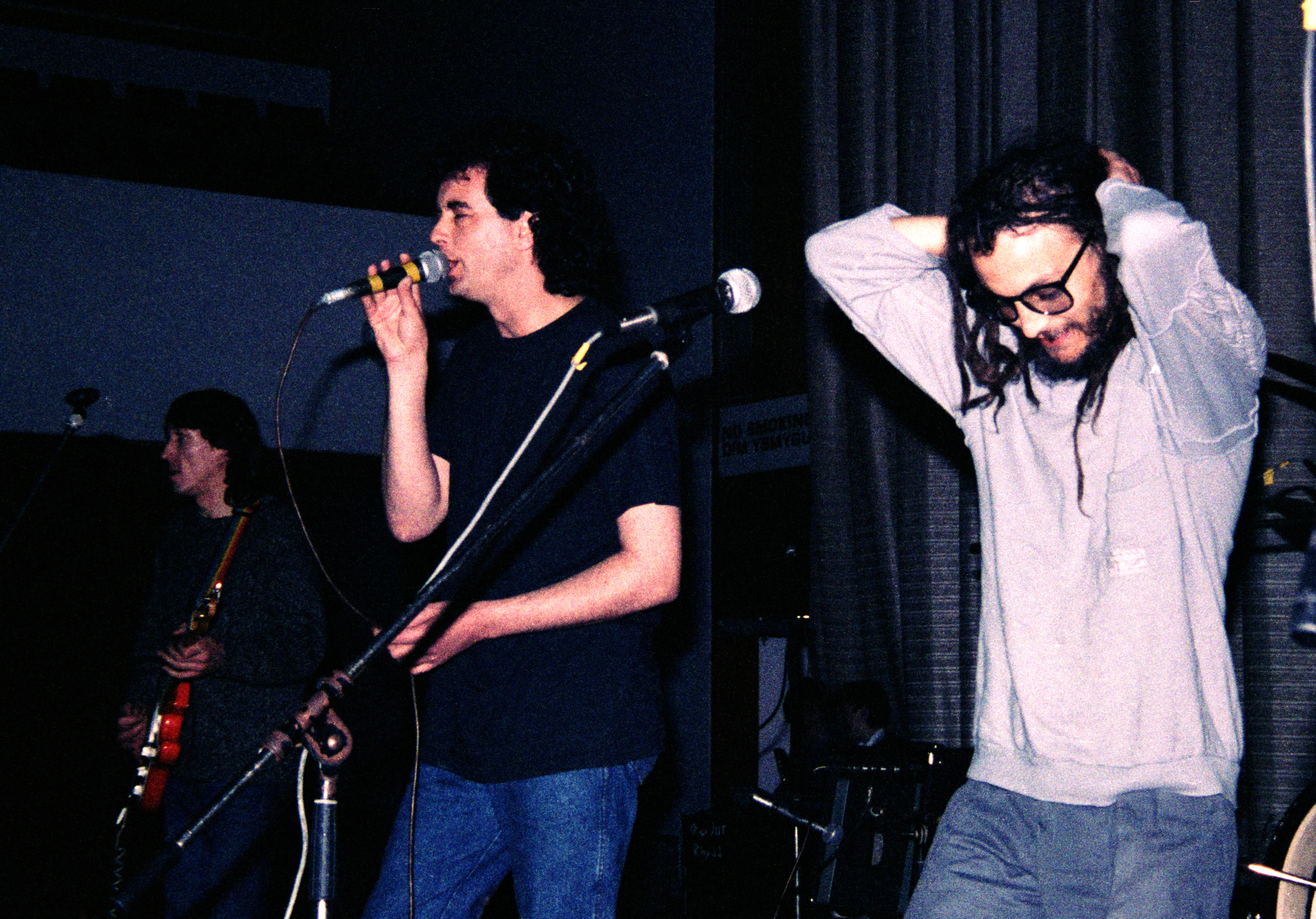 Tich Gwilym, Geraint Jarman & Keith Murrell performing in Aberystwyth, November 1985 as part of the band Geraint Jarman a'r Cynganeddwyr'